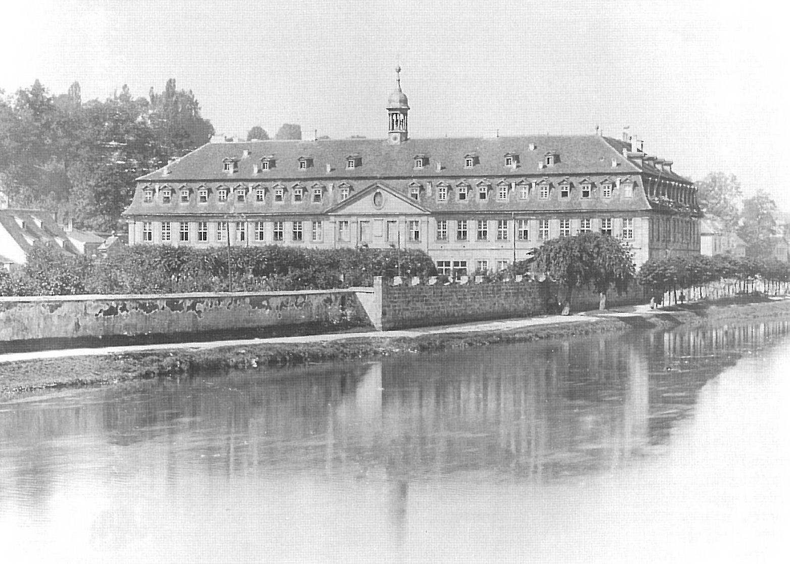 historic photography by Alois Erhard in Bamberg, Germany